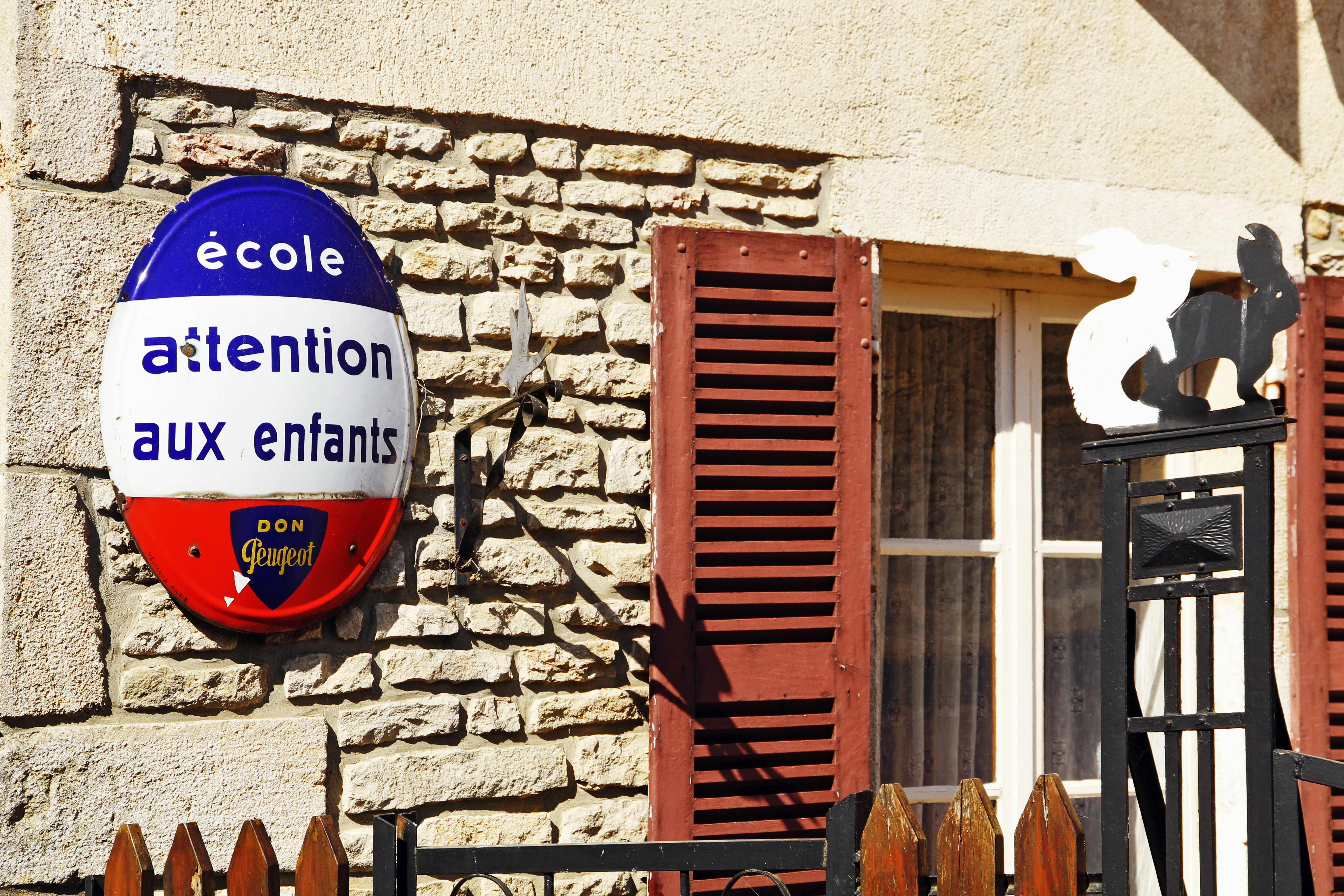 Ancien panneau Peugeot signalant une école à Minot